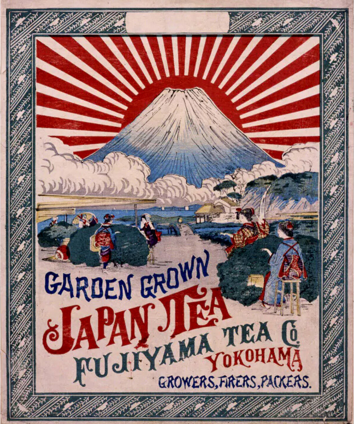 Ranji, label of Japanese green tea - Rising Sun on Mt. Fuji design